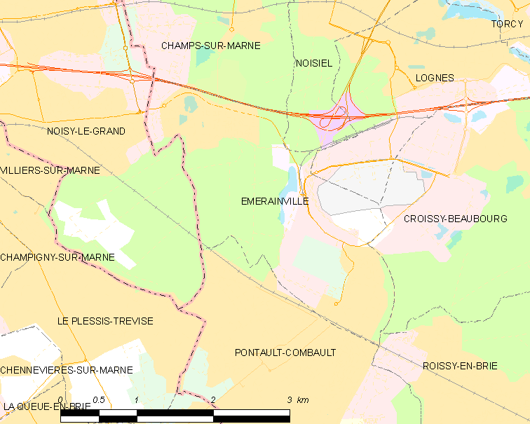 Map of French municipality Émerainville